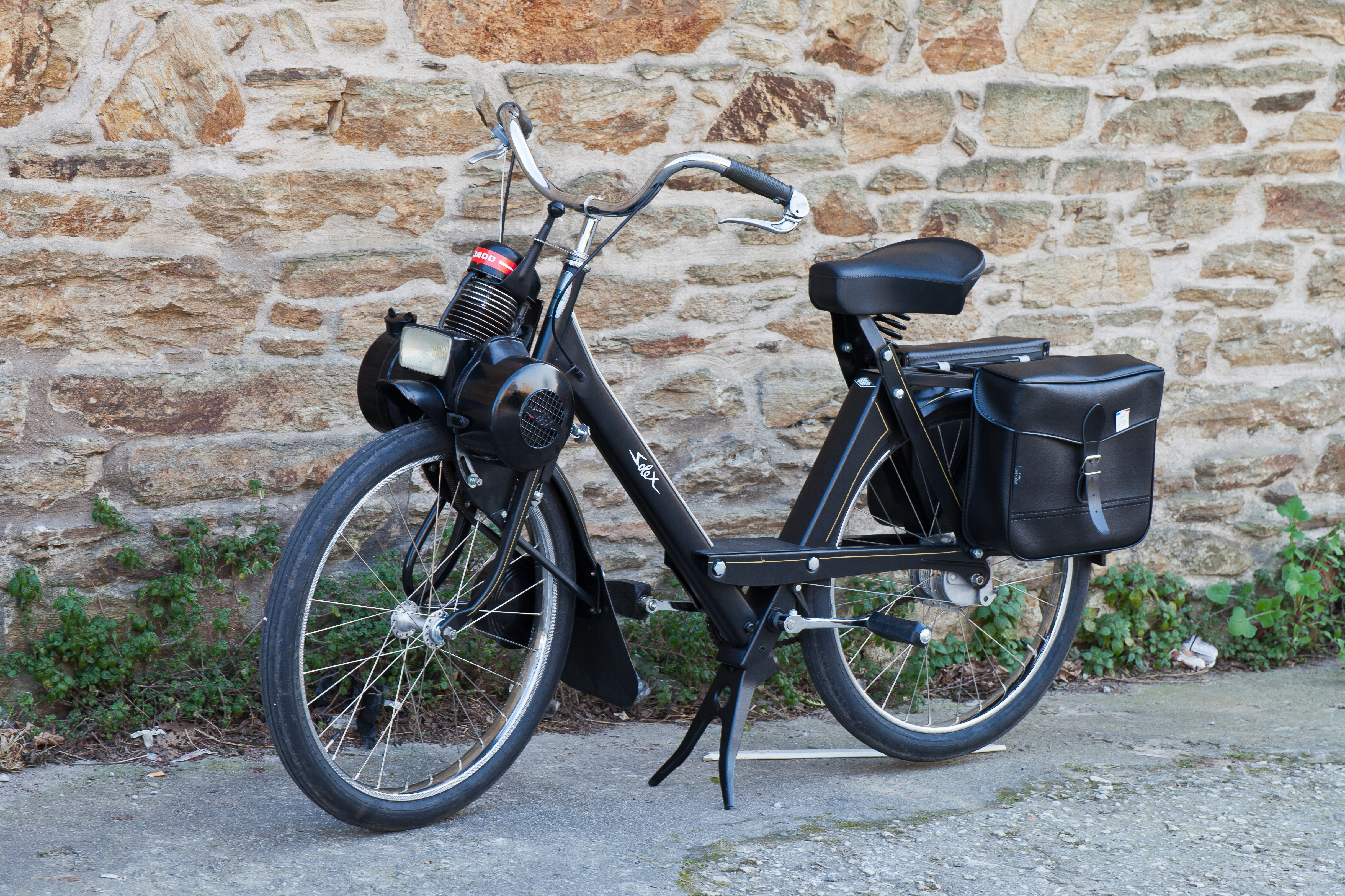 Solex 3800. Year 1966. Santiago de Compostela, Galicia, Spain